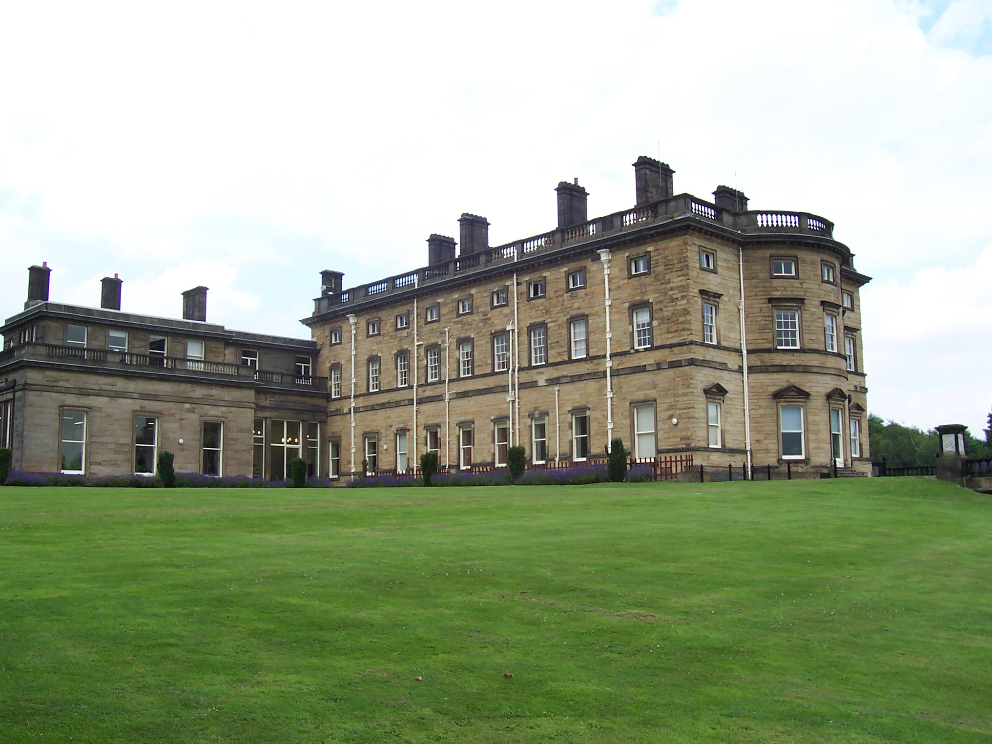 Bretton Hall taken by myself on 07 July 2005.